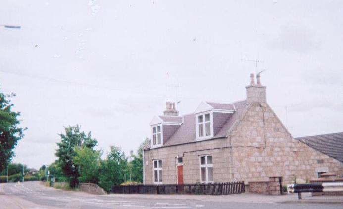 The Shed. (NECR's studios)